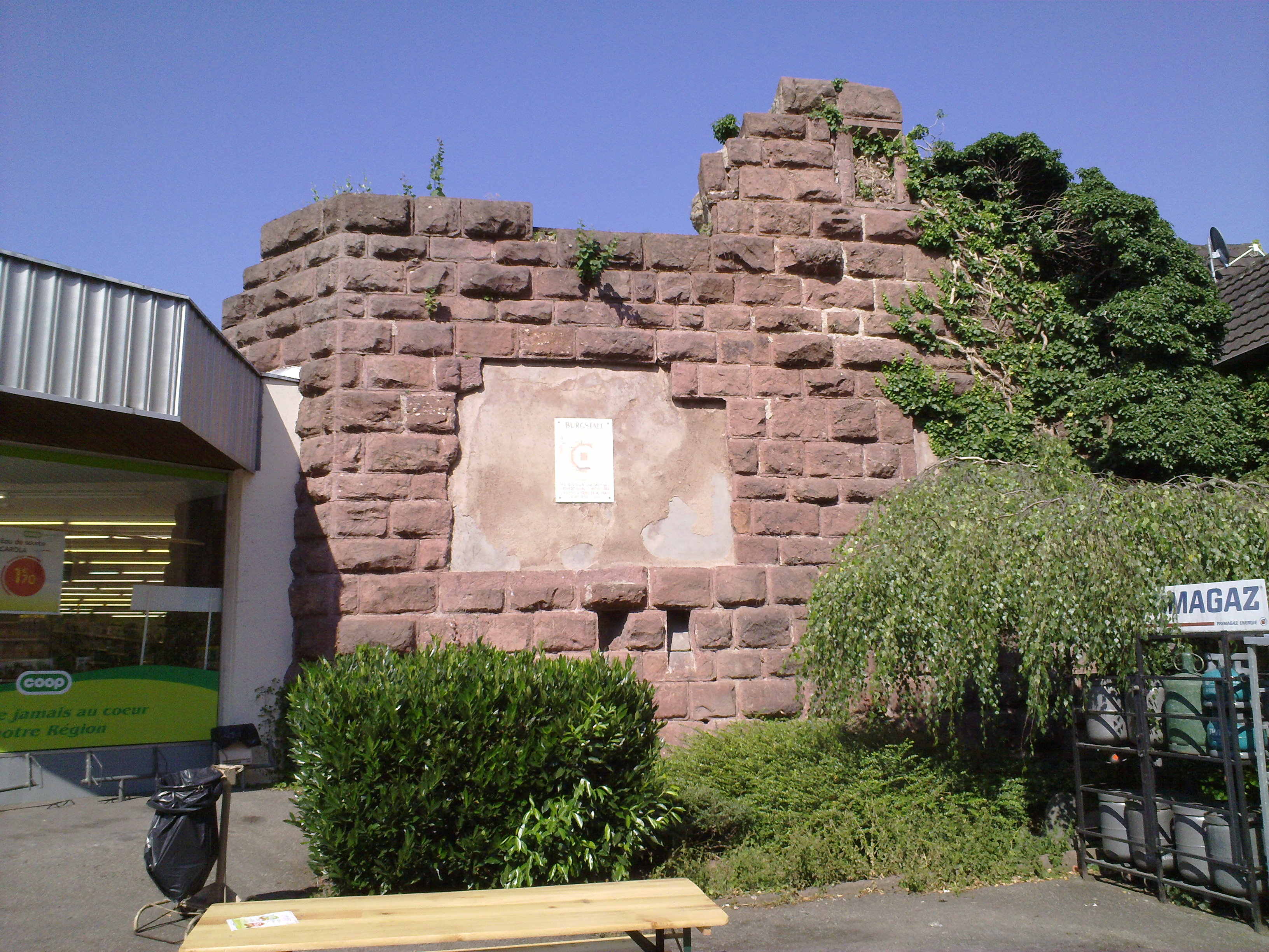 Vestiges of Burgstall castle from rue de la République at Guebwiller.